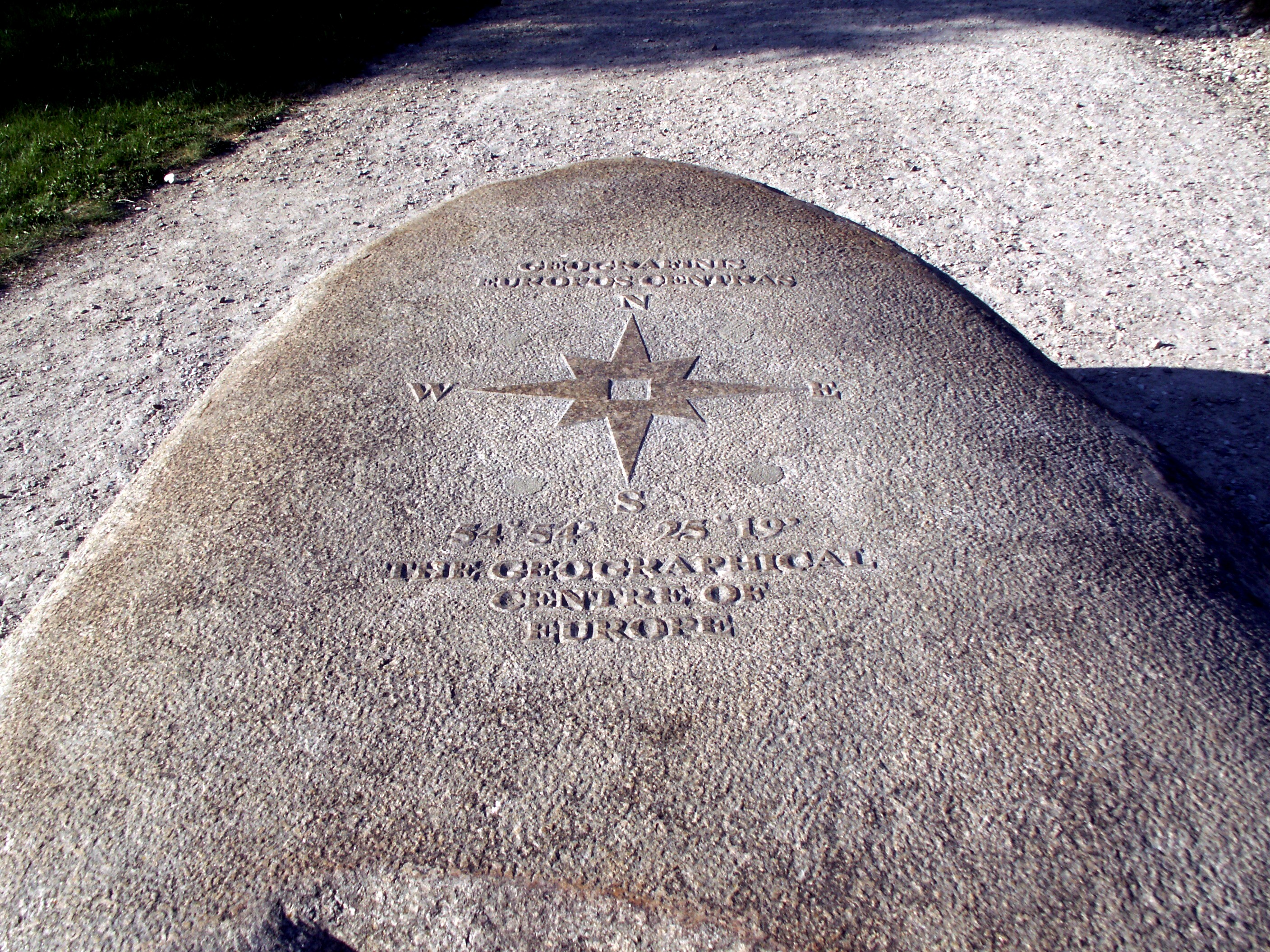 Geographical centre of Europe, Vilnius district, Lithuania